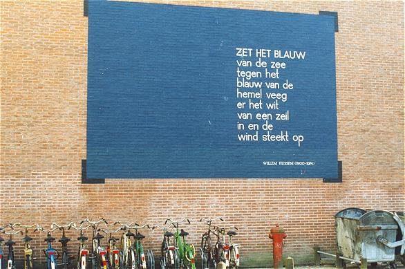 Wallpoem in de city of Leiden in the Netherlands.